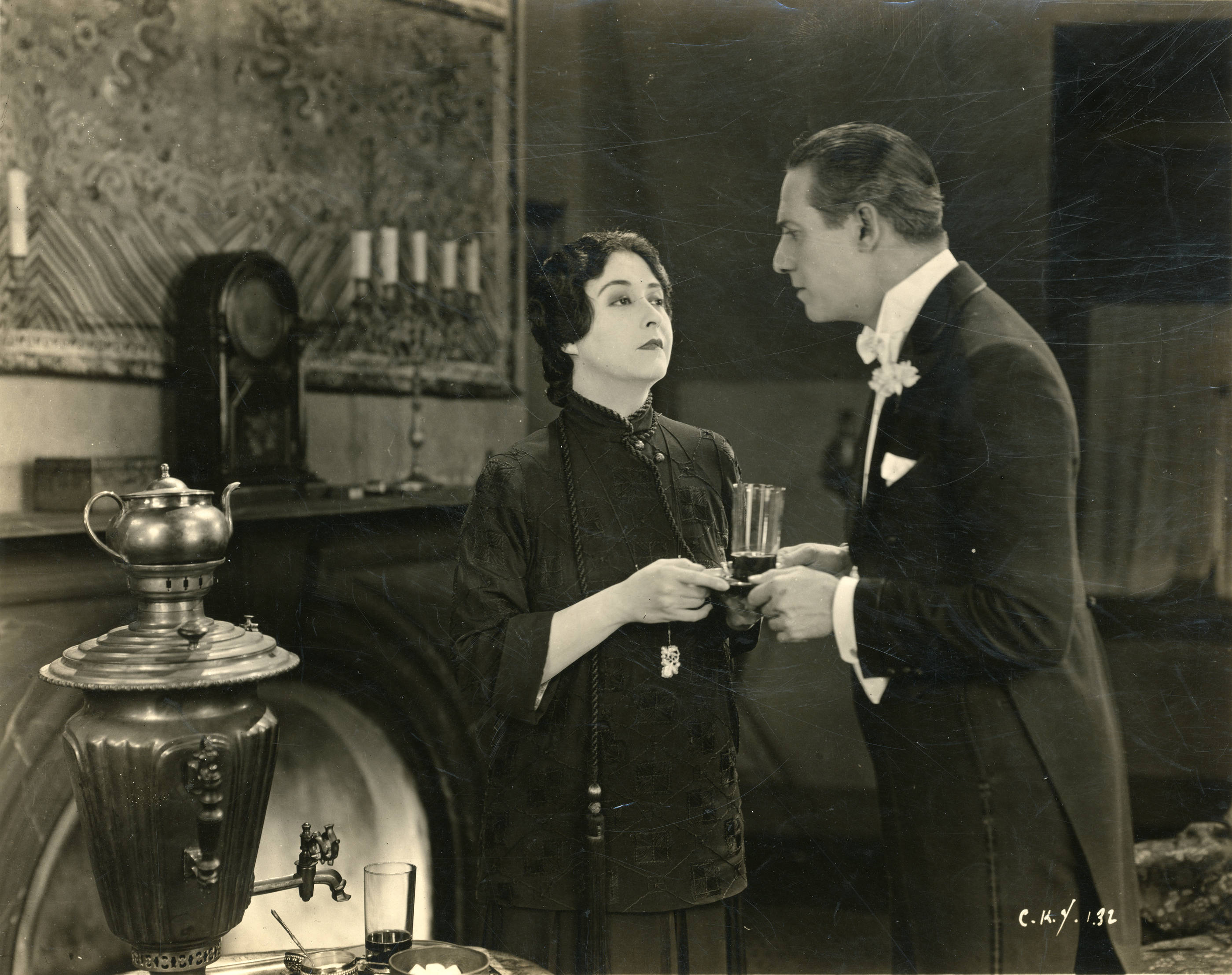 Still from the American film The Hands of Nara (1922). Subjects: motion pictures, actresses, actors